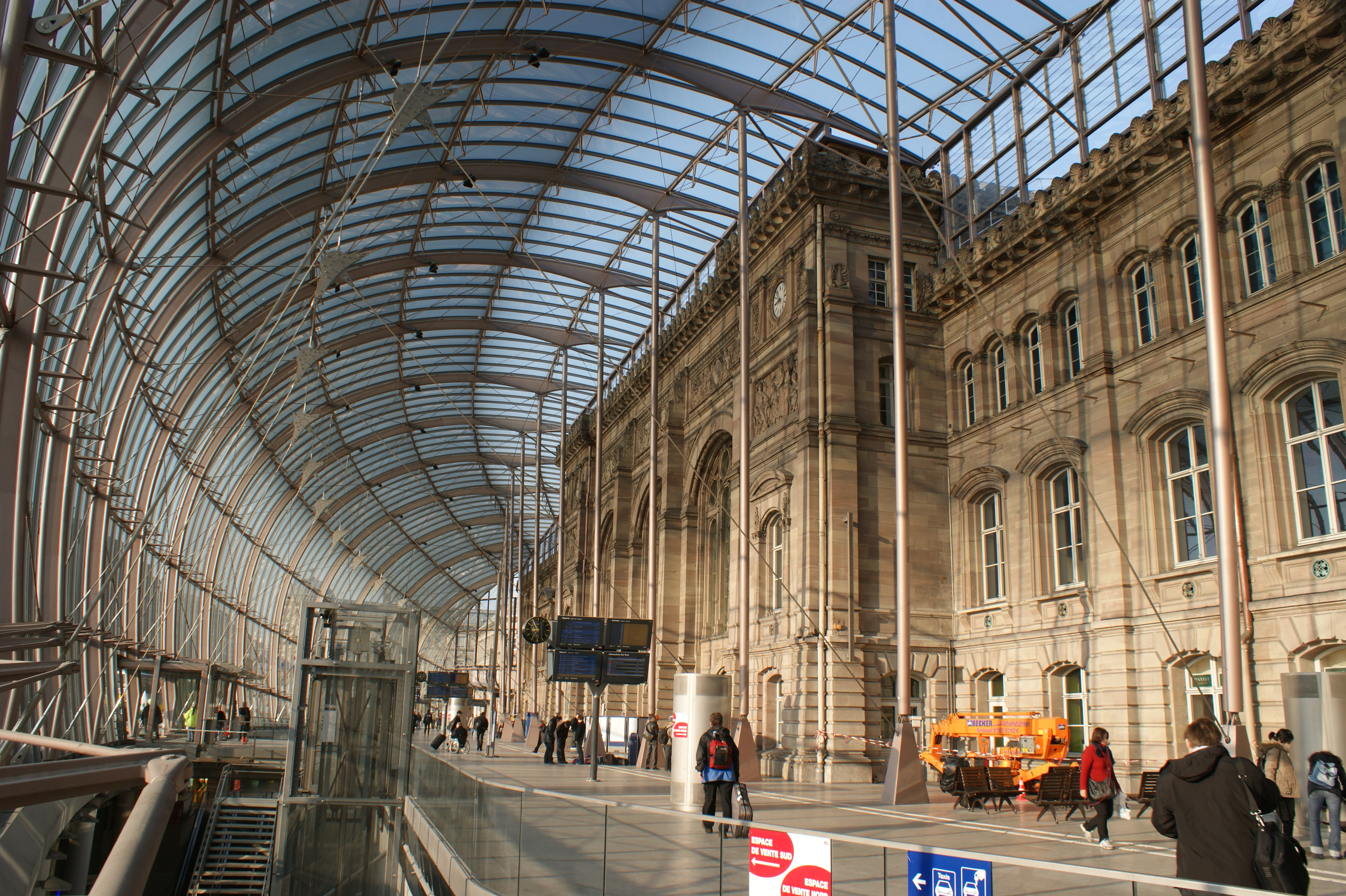 Strasbourg Station, interior of the glass frontage extension, built to extend circulation space for the TGV-Sud services, 3/09.